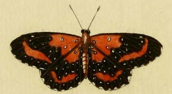 Plate CCXXXVI C "(Papilio) Plegia" ( = Stalachtis phlegia (Cramer, [1779]), iconotype?), see Funet. Photos at Neotropical Butterflies Male. Female on plate 197 F.